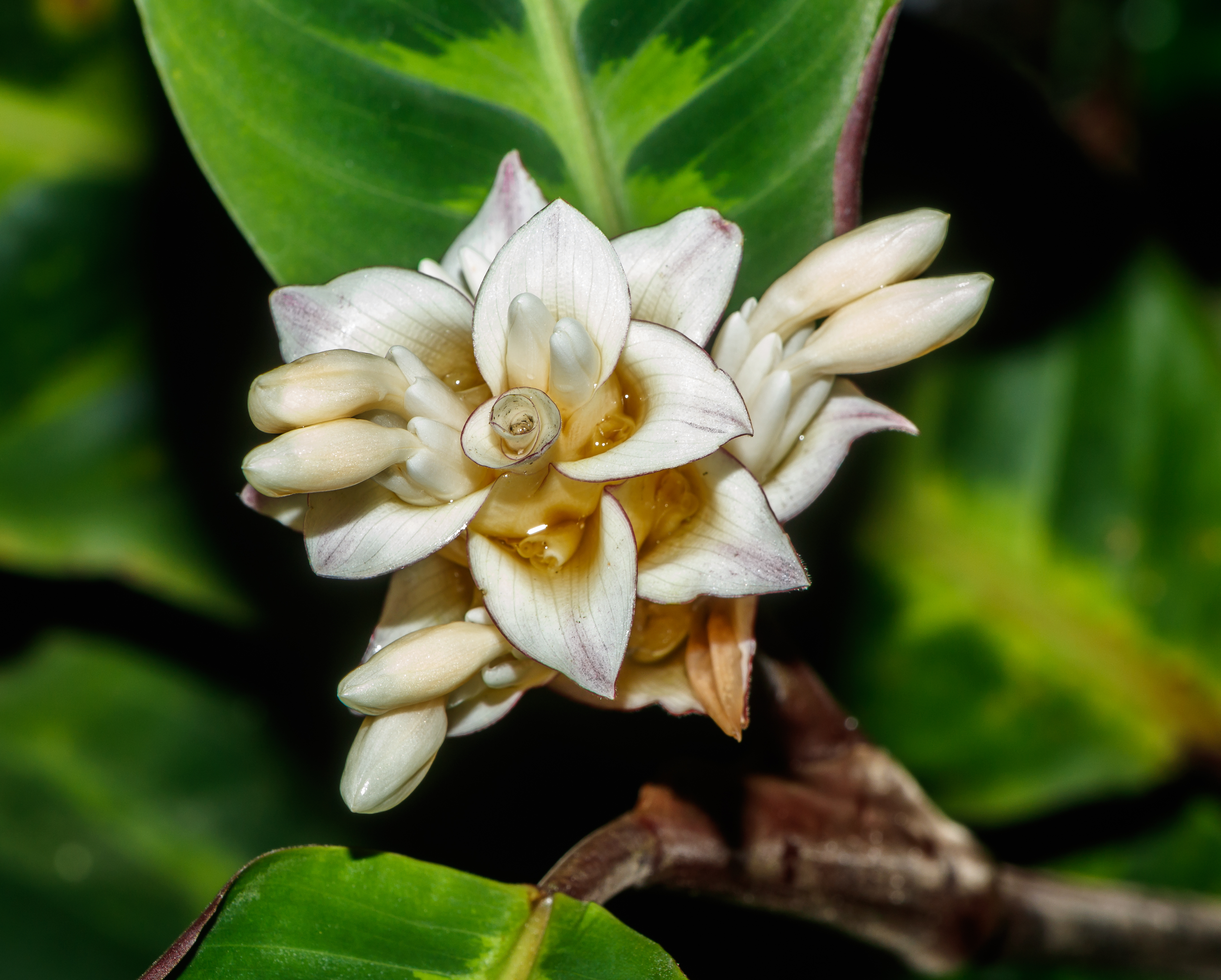 Calathea warscewiczii (L.Mathieu) Planch. & Linden, flower; Wilhelma, Stuttgart, Germany.